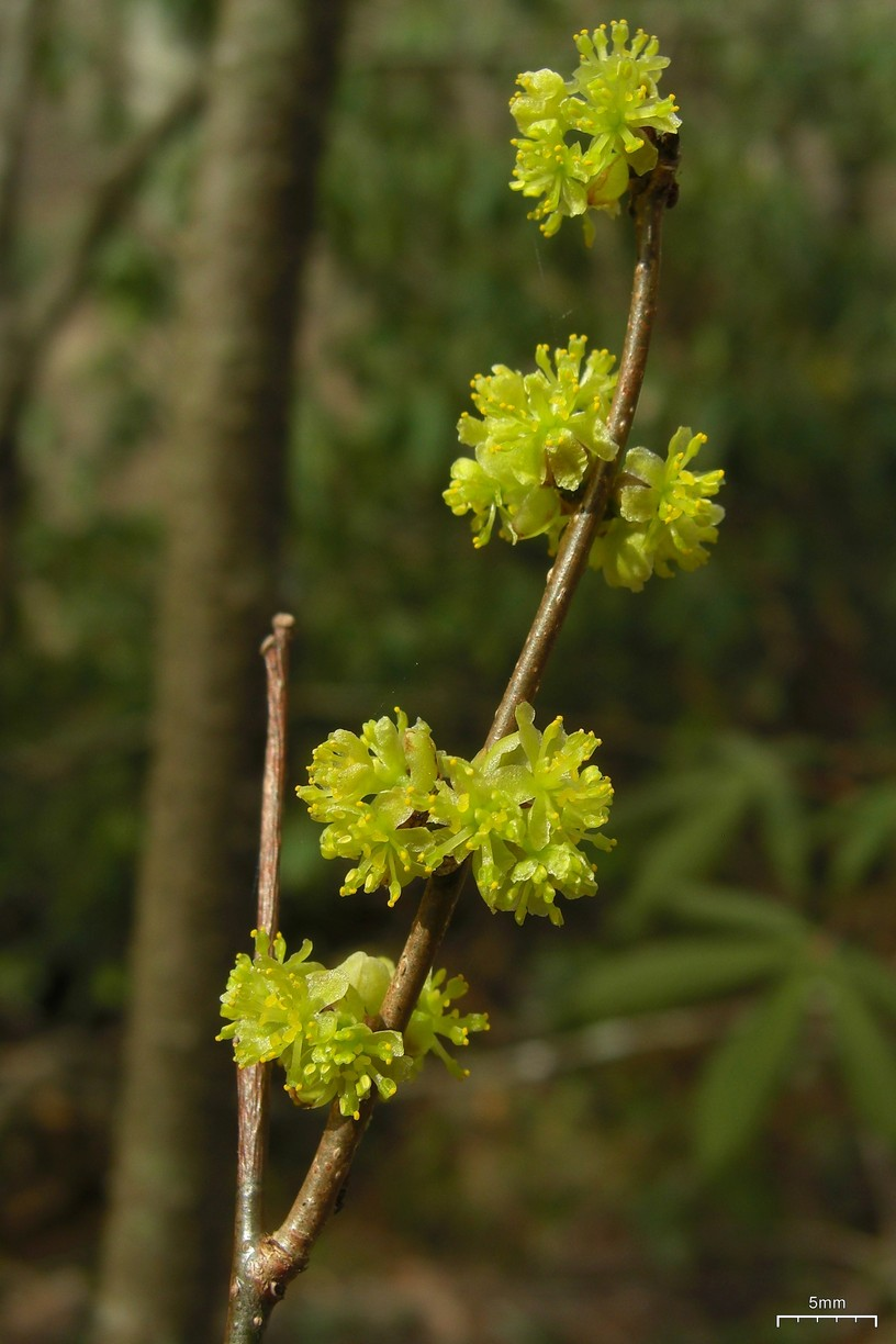 Lindera benzoin 20100405.4 US, NC, Smoky Mountains, CabinCove